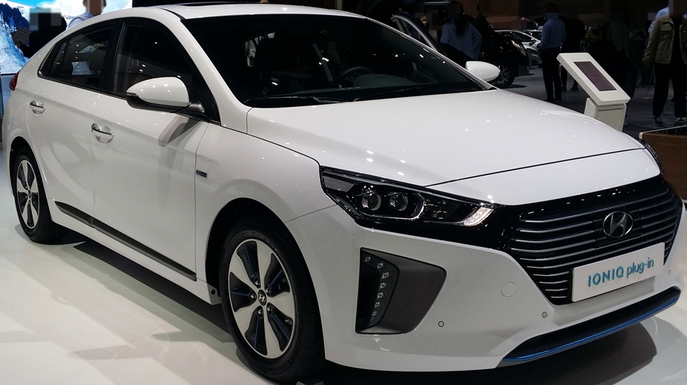 Hyundai Ioniq Plug-In